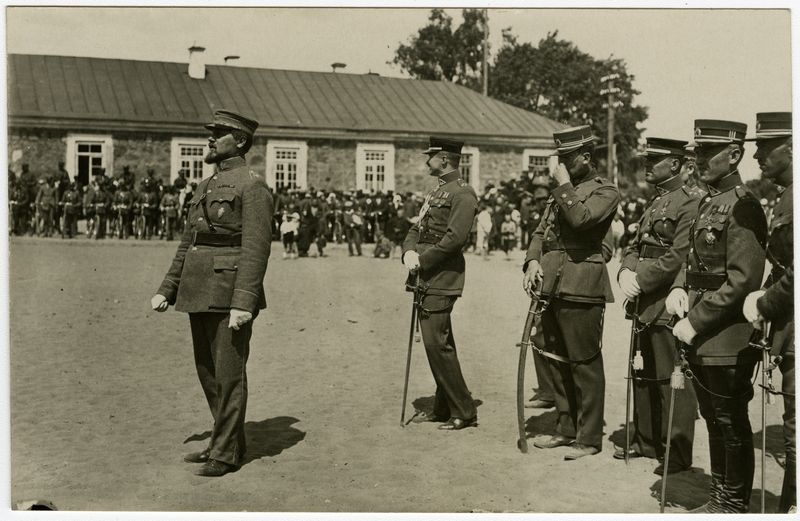 Event of the 12th Regiment of the Lithuanian Riflemen in Panevėžys. In front, delivering a speech, is Antanas Žmuidzinavičius.